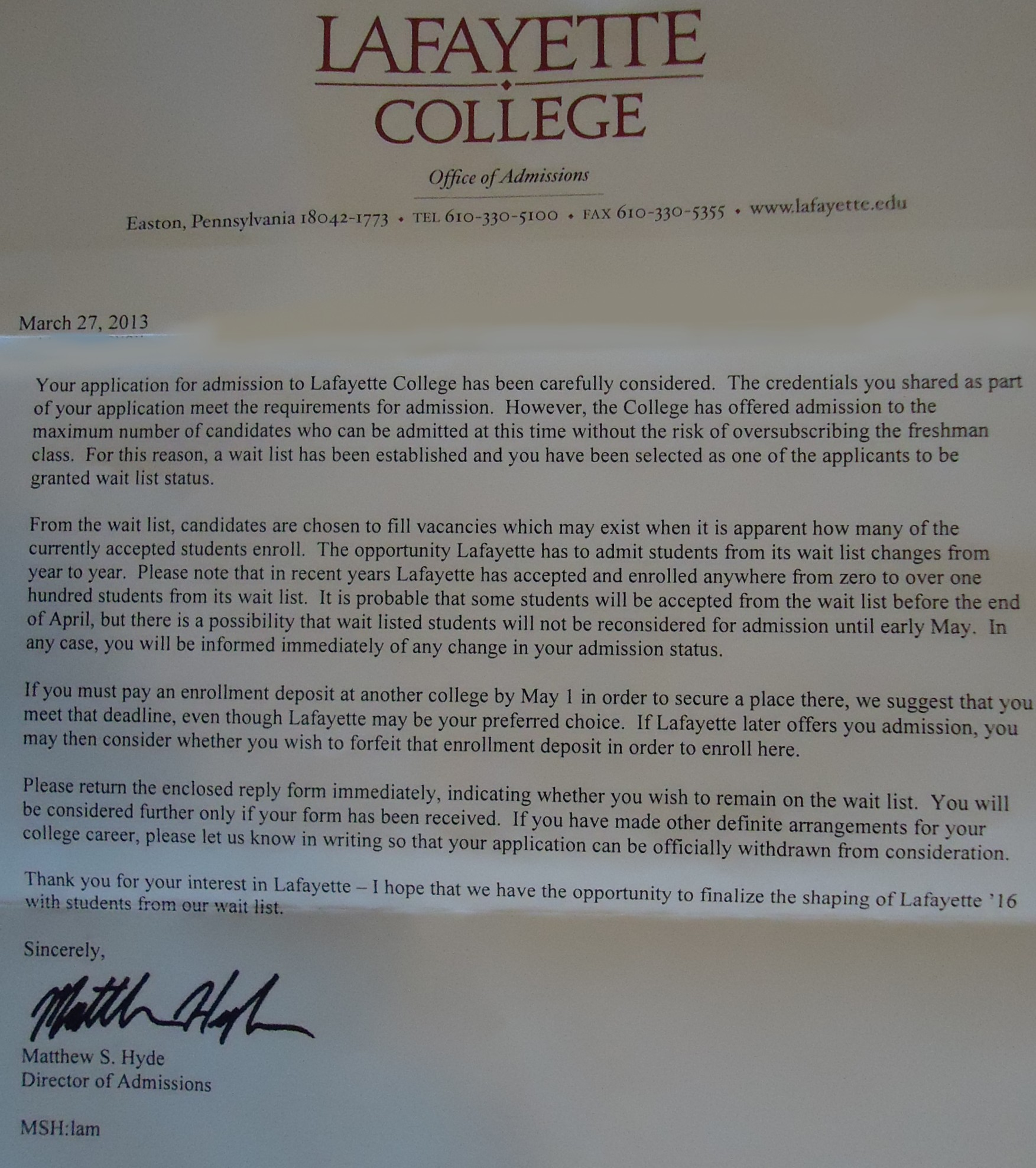 A letter from the admissions department of Lafayette College, in Easton Pennsylvania, to a prospective student (name removed), informing him or her of being offered a spot on their waitlist. Colleges use waitlists to hedge their bets, uncertain about how many students who have been offered admission will accept admission, and drawing applicants from the waitlist pool when vacancies open. This particular applicant had 790math, 800verbal, 680writing SATs and was in the top 10% of the class but did not show much demonstrated interest in attending, so it is a good idea for prospective applicants to visit the college, make contact with admissions officials, show up at college fairs, and do other things to convey a sincere desire to attend a college. Though, if you do not have a possibility to visit college you may send a confirmation letter assuring you will attend this specific college; it might be a good idea even if you aren't sure yet to display ancipitation towards the academic year start (